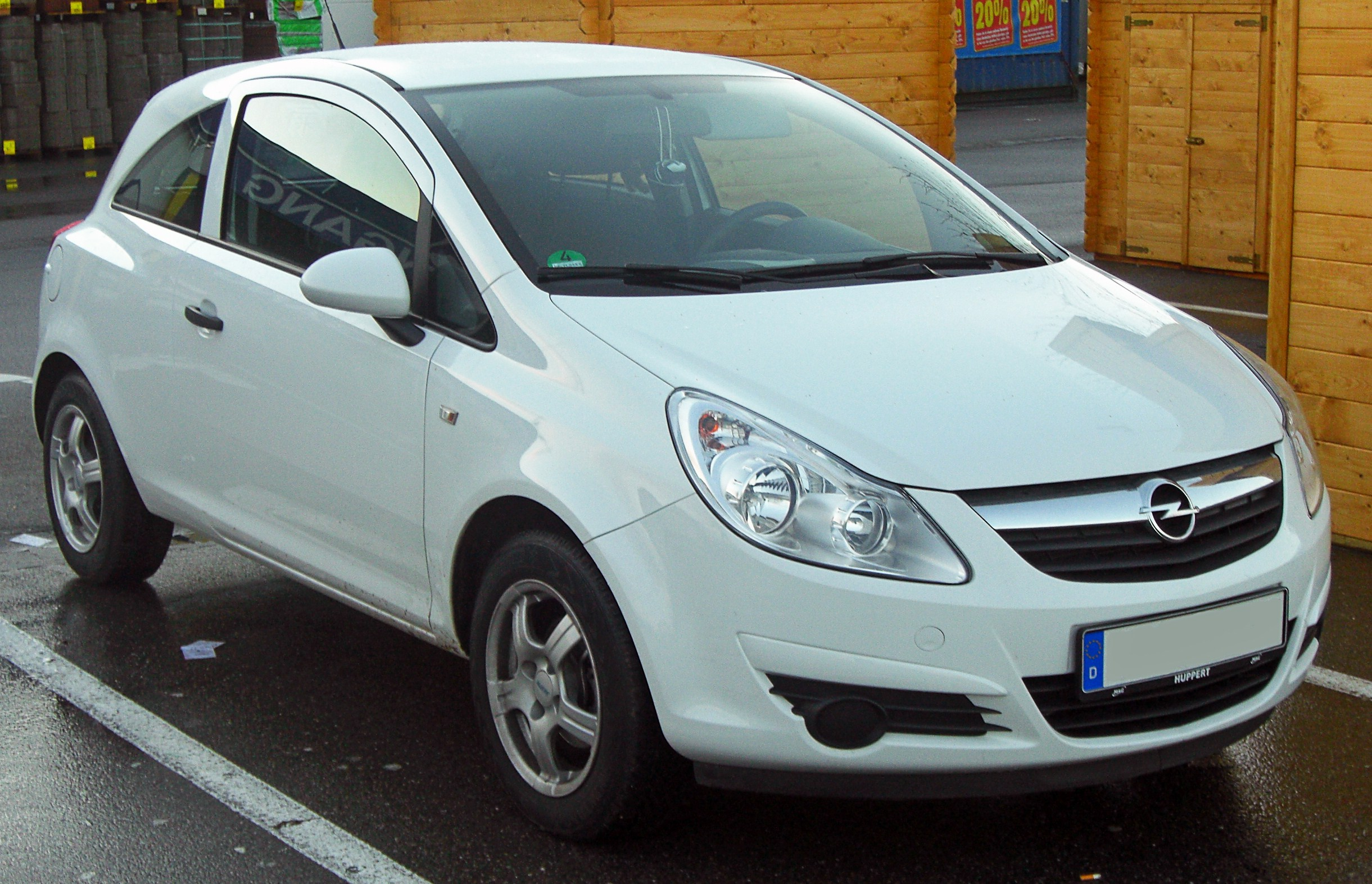 Description: Opel Corsa D Source: Matthias Other Version(s)